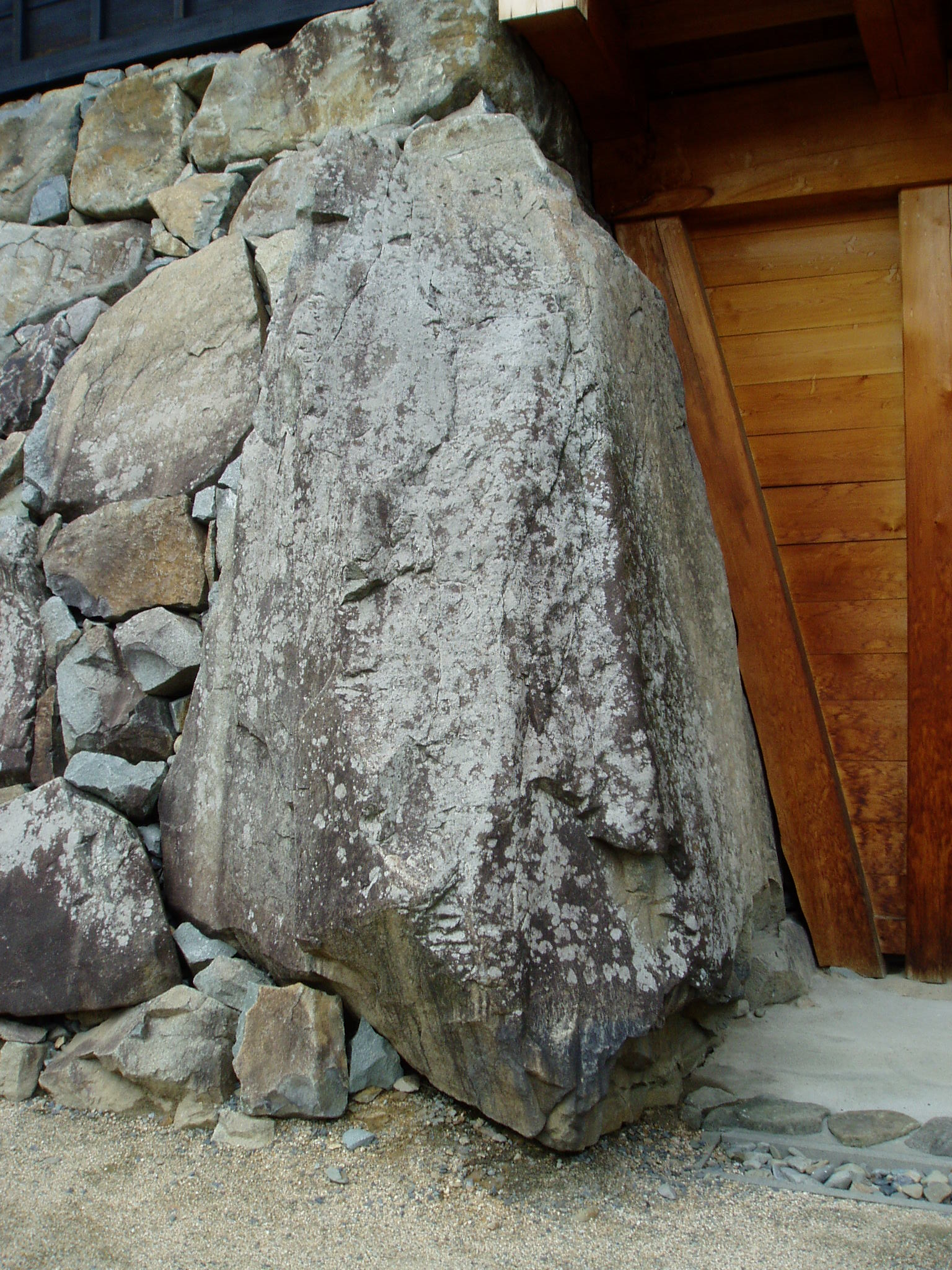 Gemba Stone (Gemba Ishi; 玄蕃石) at Matsumoto Castle in Matsumoto, Nagano, Japan. The biggest stone in the castle.